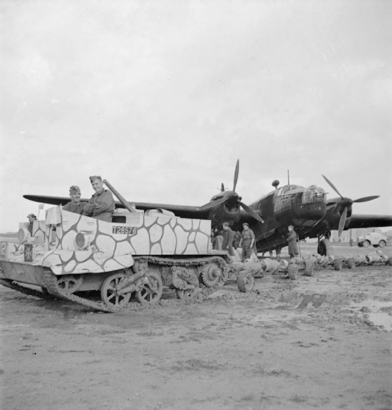 Royal Air Force Operations in Malta, Gibraltar and the Mediterranean, 1940-1945. A Bren gun carrier of the Malta Garrison tows a trolley-load of 250-lb GP bombs to a Vickers Wellington in its dispersal at Luqa.